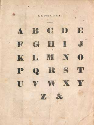 A page from an 1863 book showing the 26 English letters and the ampersand.